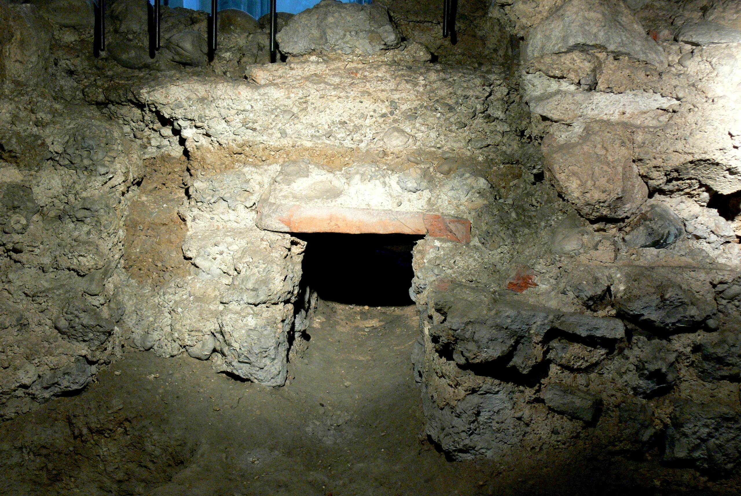 Lorch ( Enns/Upper Austria ). Basilica of Saint Lawrence: Excavations of an ancient Roman house ( 2nd century ) - part of the underfloor heating system.